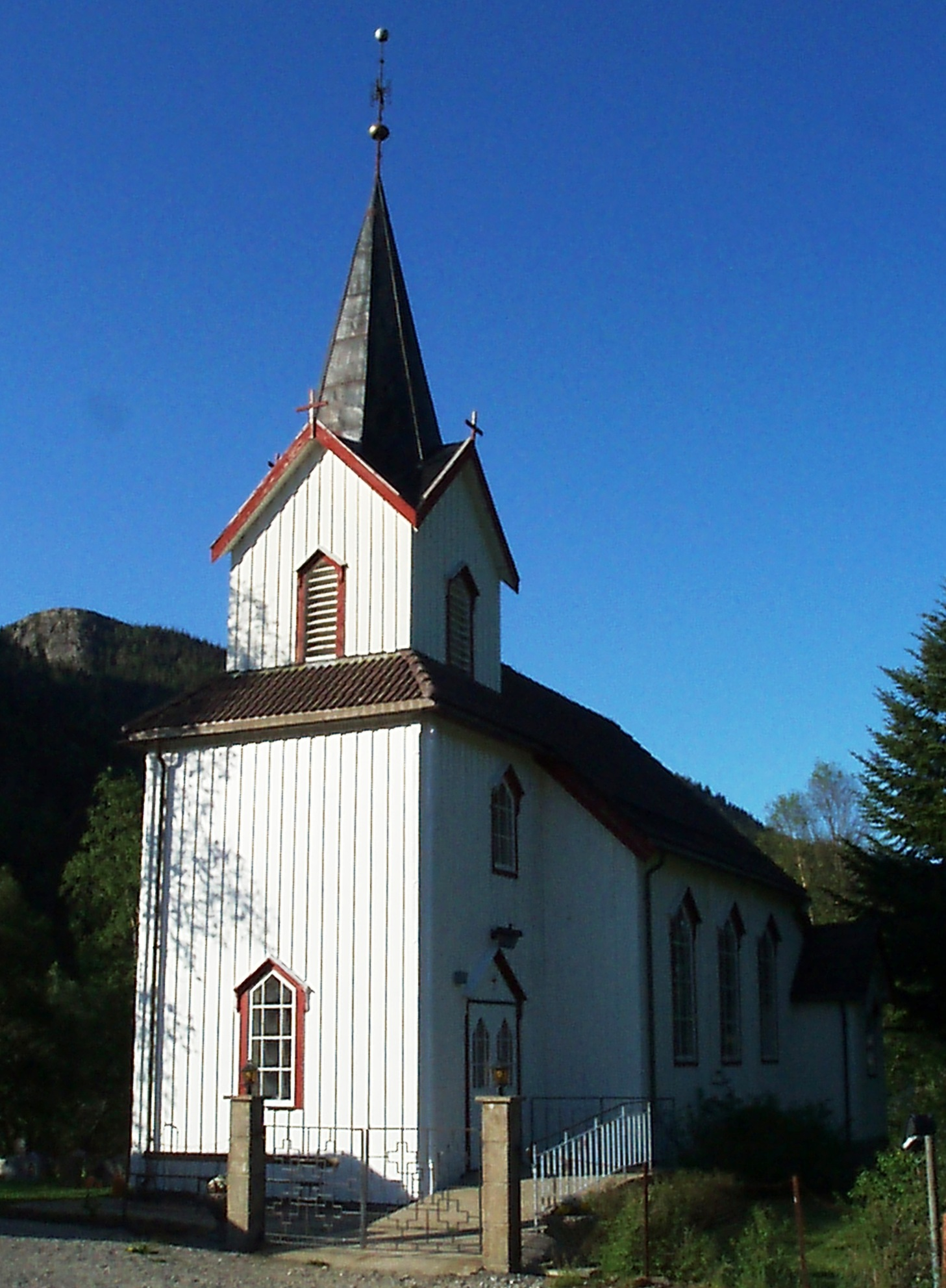 Fines kapell (Fines chapell) of Verran, Norway